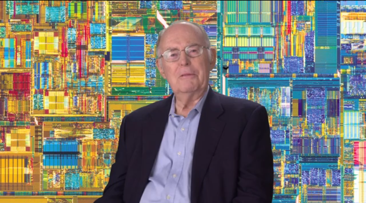 Image of computer scientist and businessman Gordon Moore. The image is a screenshot from the Scientists You Must Know video, created by the Chemical Heritage Foundation, in which he briefly discusses Moore's Law.